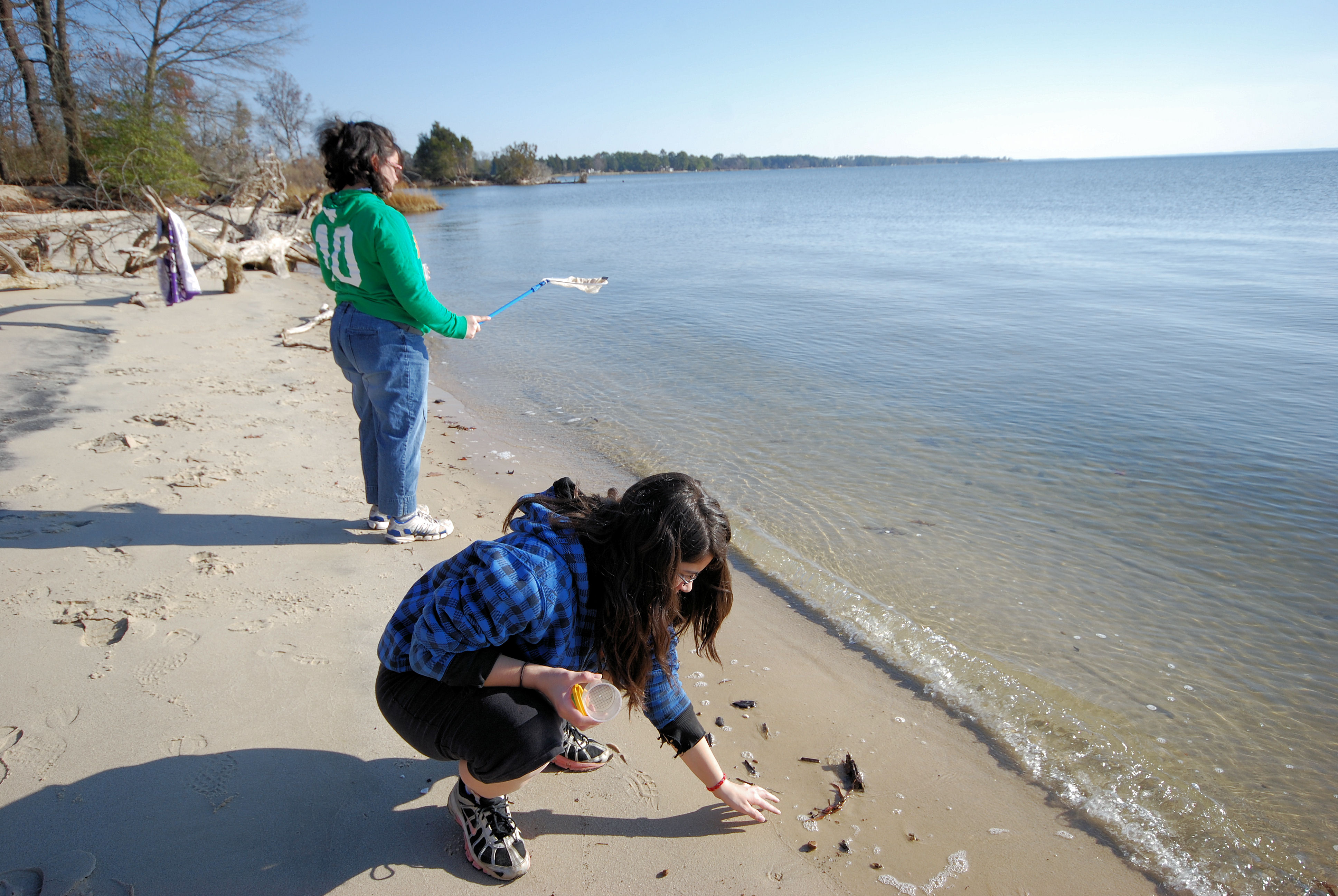 Beachcombing at Belle Isle State Park, Virginia, United States Uploaded by SA Used in blog SA eNews 06/21/2013